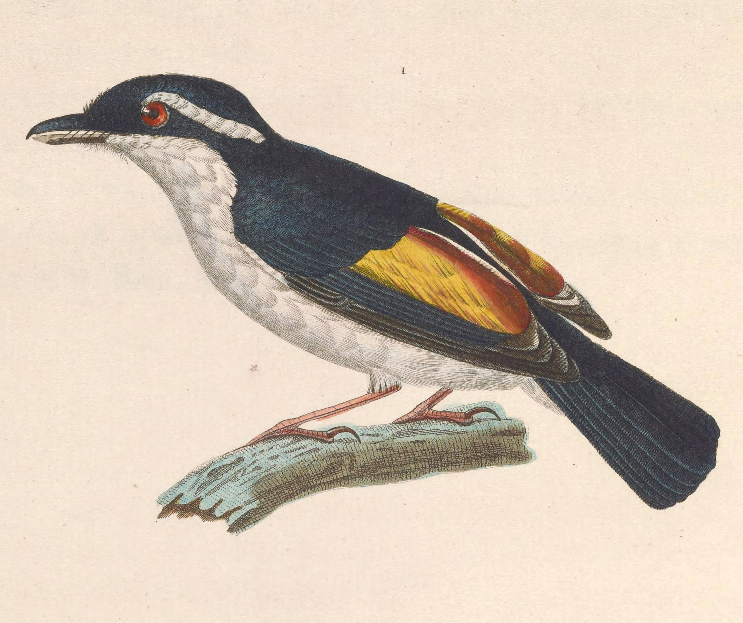 « Allotrius flaviscapis » = Pteruthius flaviscapis (White-browed Shrike-babbler) - adult male